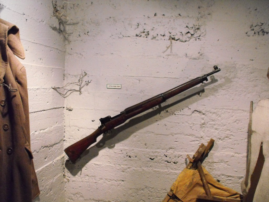 Geography of Israel